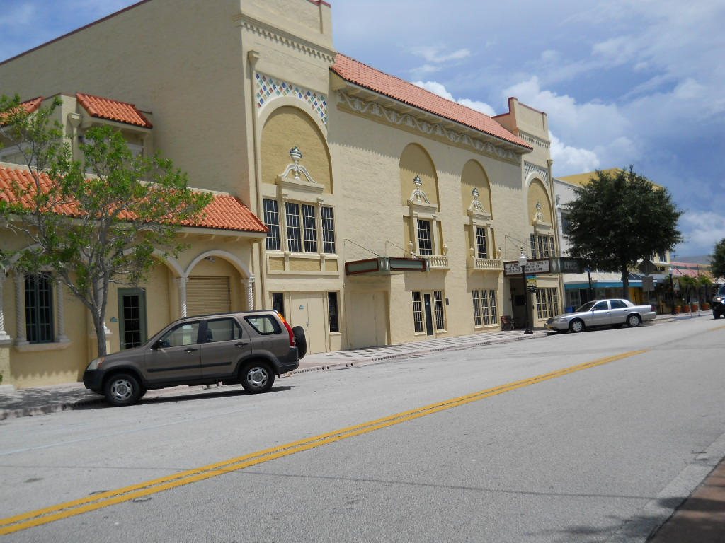 Lyric Theatre, 59 South West Flagler Avenue in Stuart, Florida